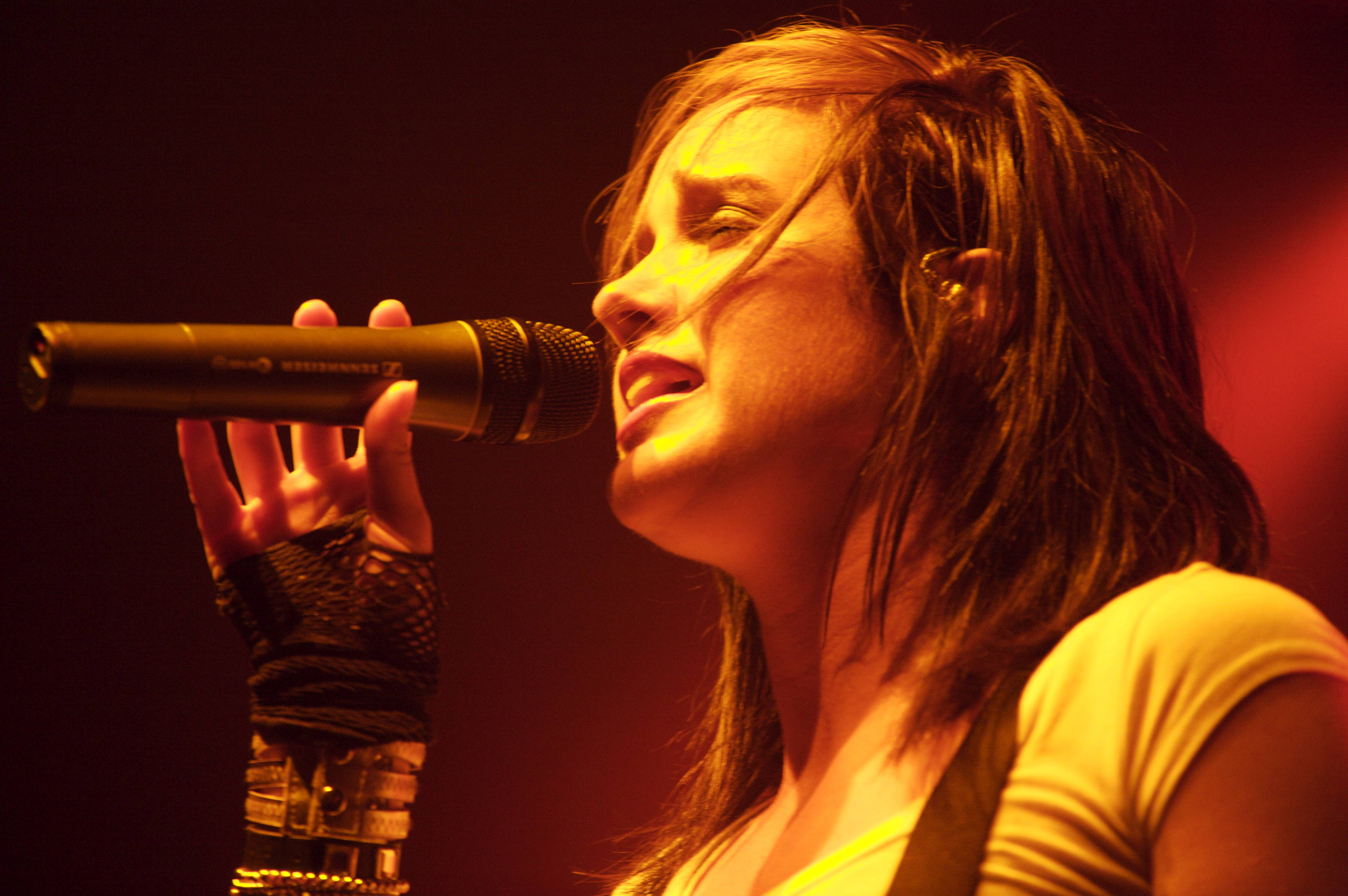 Britt Nicole performing at Cross The Line Knoxville